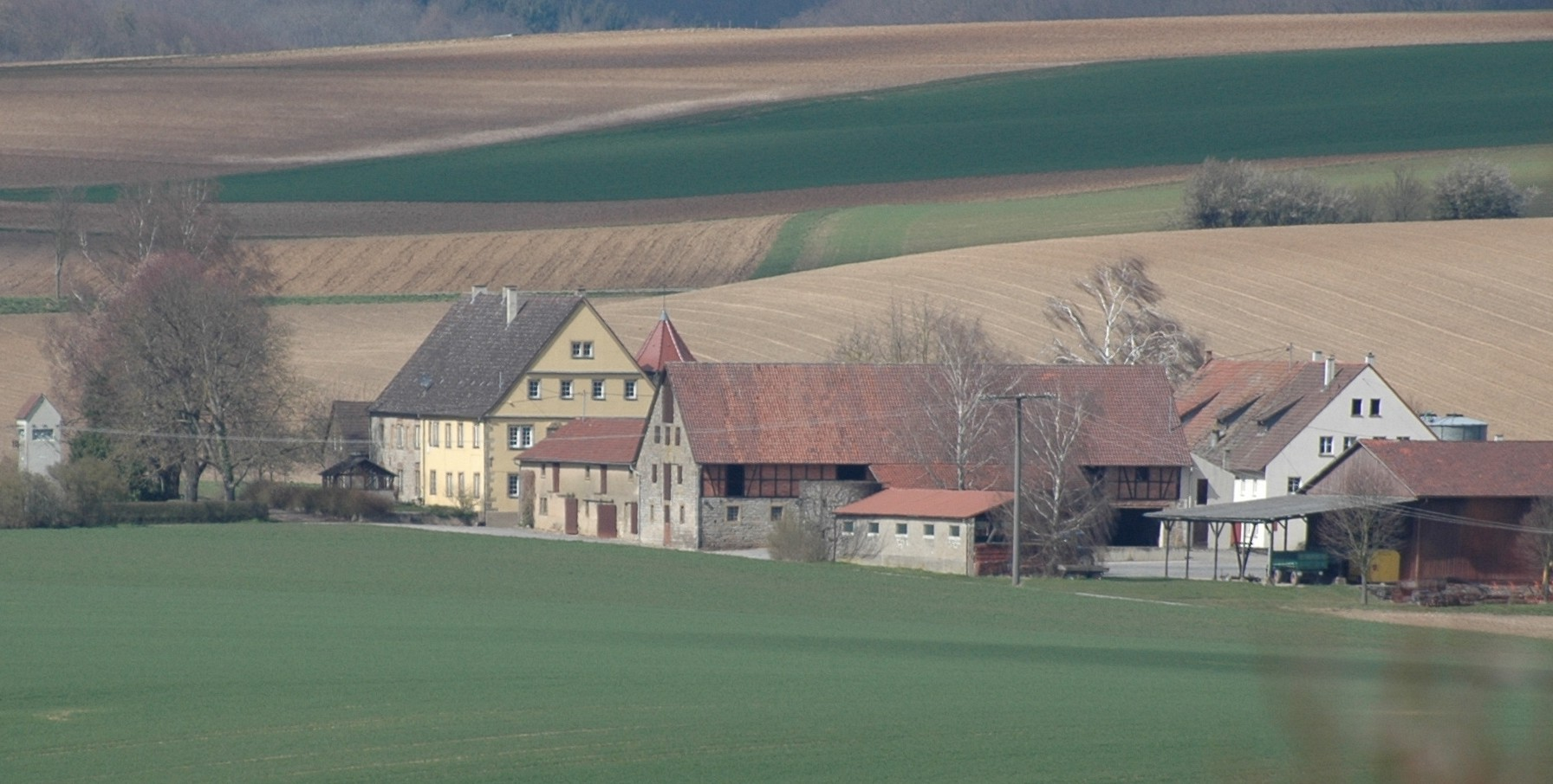 Willenbach near Oedheim, as seen from the Neuberg in Oedheim.